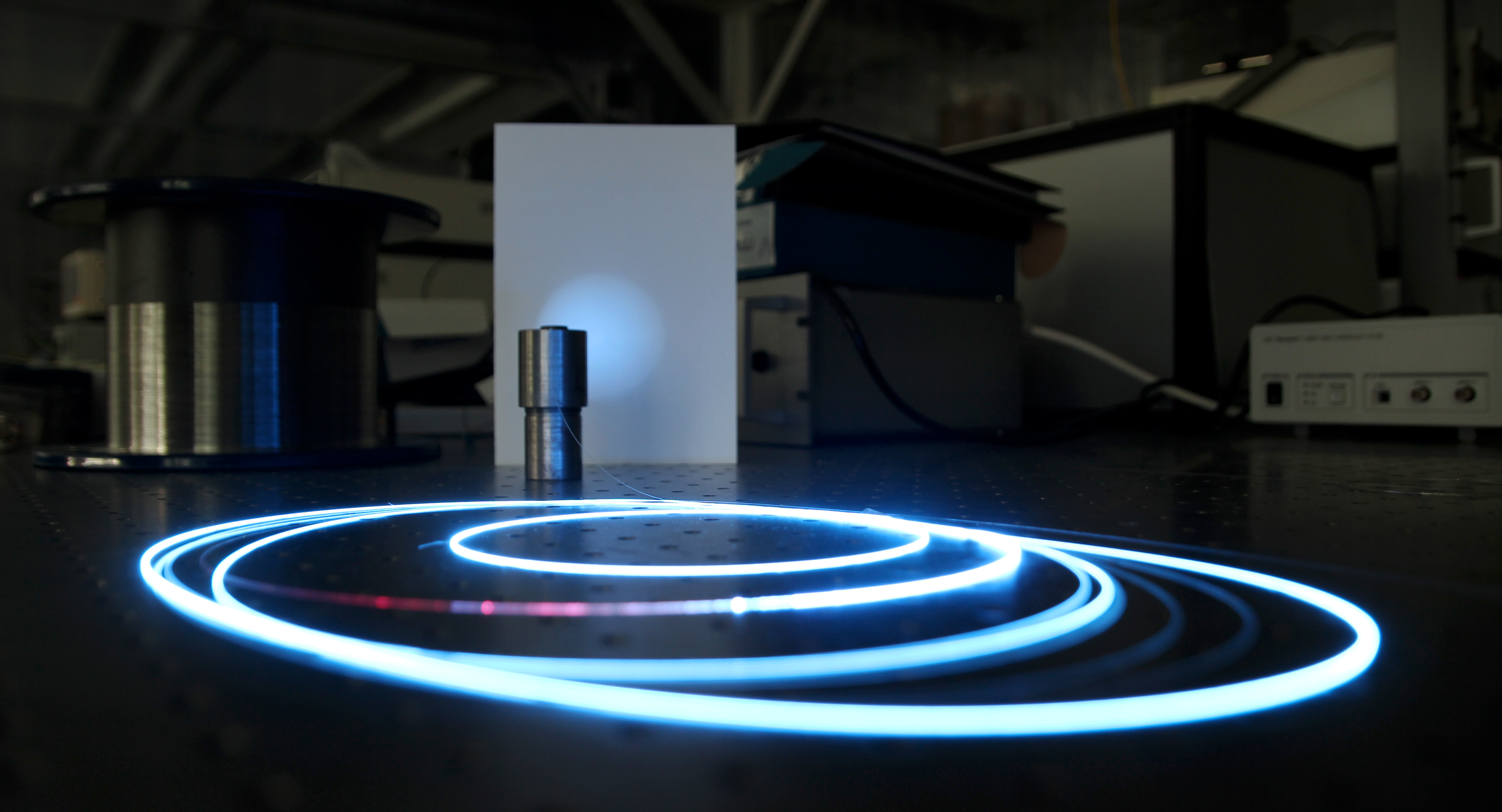 Fiber that contains infrared light shines with a blue color in the dark. This process is called upconversion fluorescence. Per Henning/NTNU